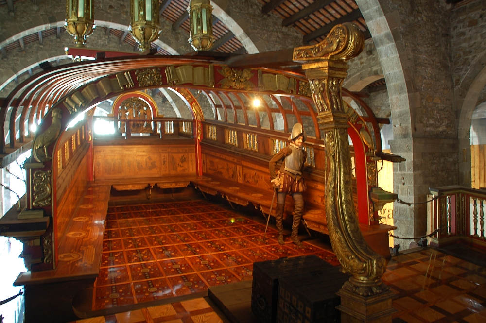 Museu Maritim, Barcelona, Spain